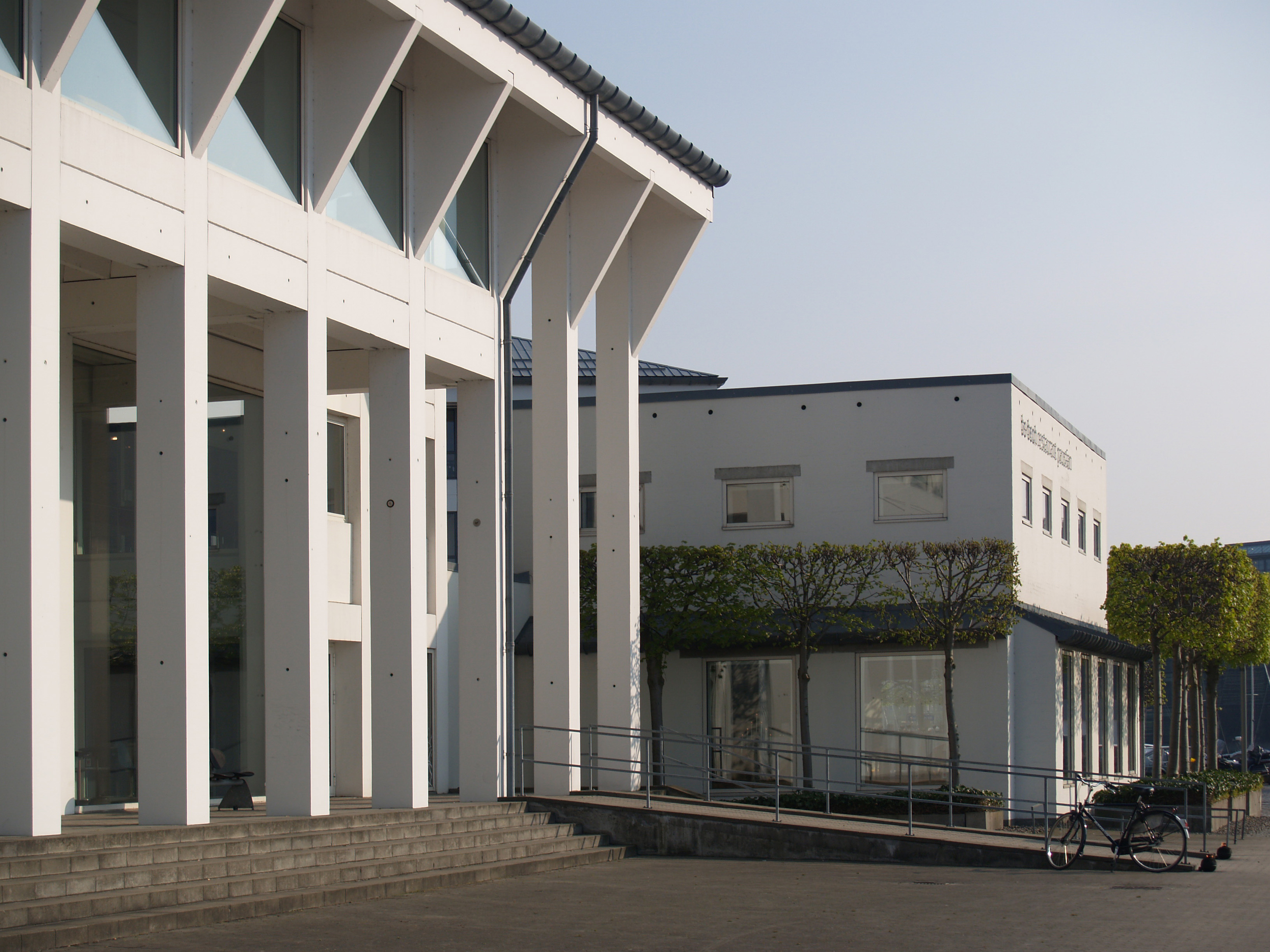 Paustian House, Copenhagen. Architect: Jørn Utzon. Very basic architectural ensemble of an open, temple-like structure and a box. All prefab concrete and done on a ridiculously low budget.